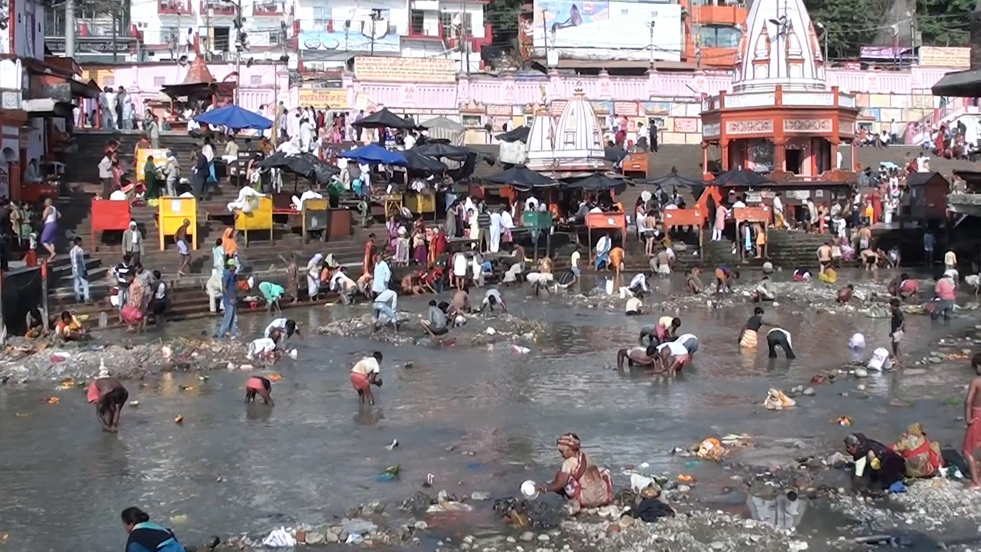 This is a picture of the dry river bed of the Ganga Canal. The Ganga Canal in Haridwar is dried every year on Dussehra to clean the river bed and the waters are restored on Diwali.